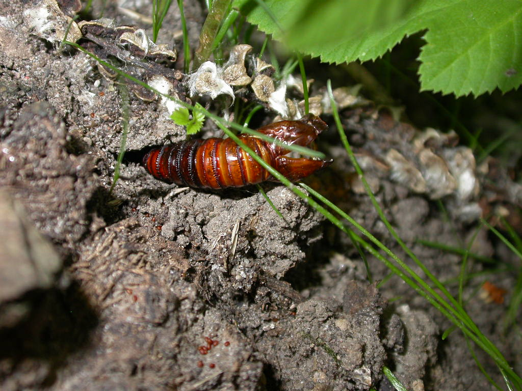 Sesia_apiformis